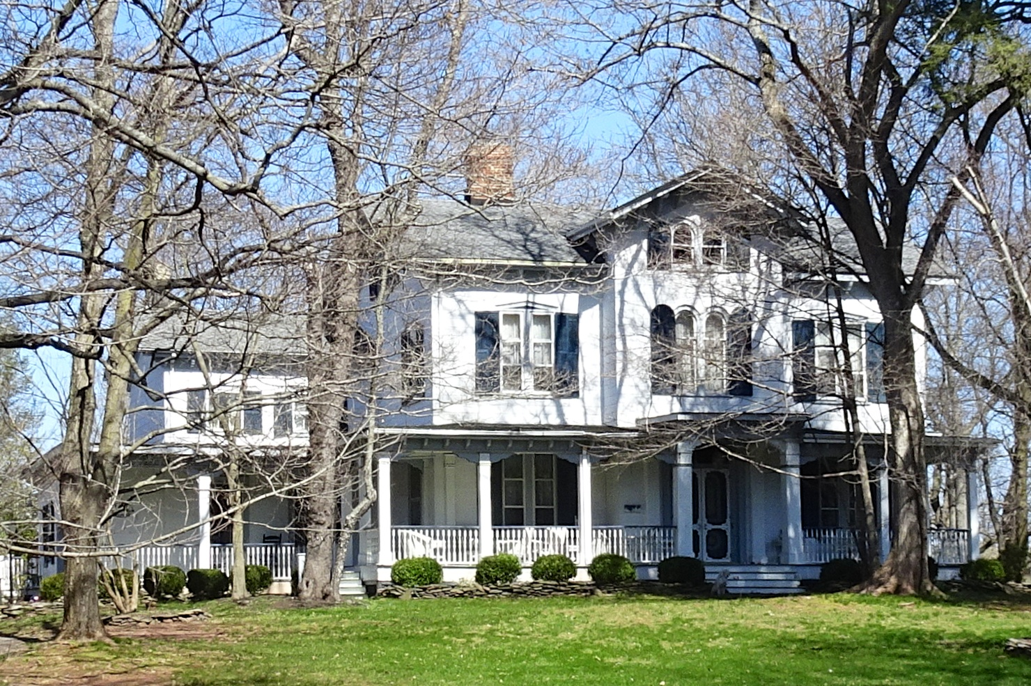 Laurence Van Derveer House in the River Road Historic Rural District. Built 1866 in the Italianate style. Contributing property.